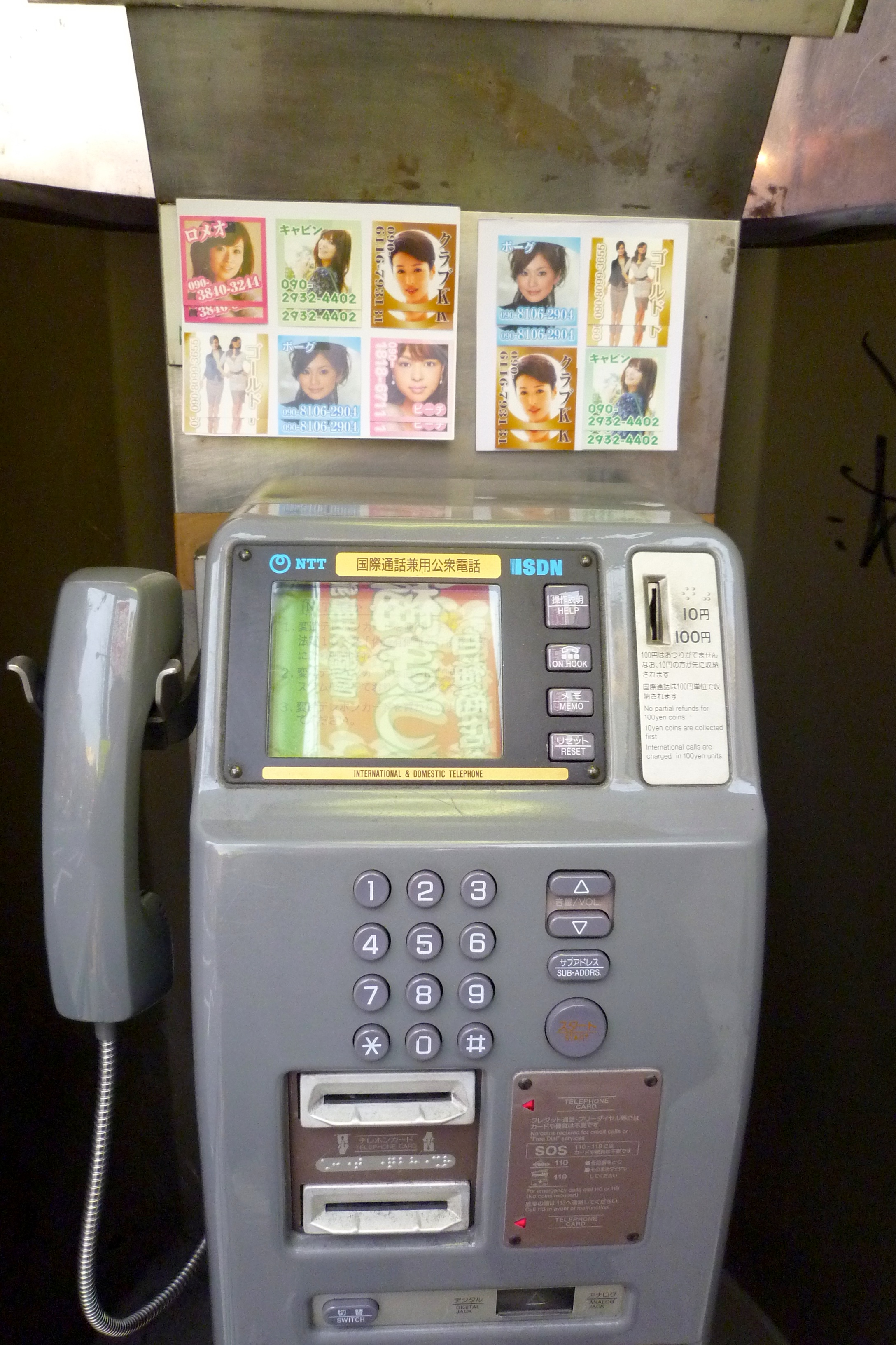 電話ボックス内のピンクチラシ (pink flyers [adult services flyers] inside a phonebooth in Japan)